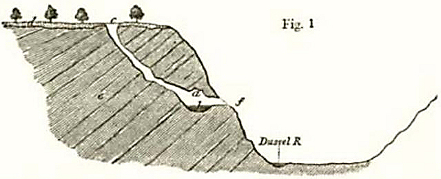 Section of the Neanderthal Cave (Kleine Feldhofer Grotte) in Erkrath near Düsseldorf (Germany).